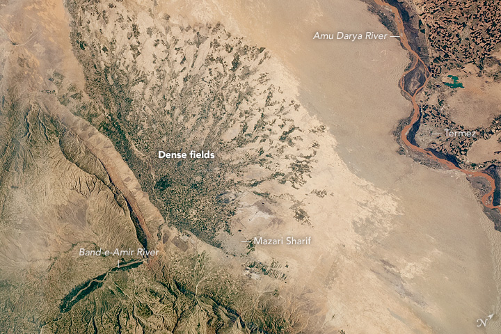 Taken through a window on the International Space Station by the EarthKAM camera, this photo shows dense clusters of agricultural fields radiating across a large alluvial fan in Afghanistan. Clusters of dark green fields stretch away from the hills like fingers across the Band-e-Amir alluvial fan. The river flows from a canyon in the hills (lower left) and exits at the apex of the fan. From this point, many canals lead the water across this large, flat plain, irrigating the fields and providing drinking water for a large population. The alluvial fan also provides softer sediments for plowing and sowing seed, as well as smooth surfaces for easy transport of crops to markets. Each dark cluster of fields has a market at its center. Just about all of the water that comes out of the canyon is used by the people and the crops, resulting in little water flowing off the fan. Before agriculture, though, the Amir River flowed all the way (65 kilometers or 40 miles) from the apex of the fan to the brown Amu Darya River. Compared with the rivers and fields, towns may be the least obvious features in this view from above. The main city, Mazari Sharif, is the third largest in Afghanistan (690,000 people) and has been famous for hundreds of years as a center of pilgrimage and trade in central Asia. The city of Termez (over the border in Uzbekistan) faces the Amu Darya. For centuries, populations have been congregated on the numerous fans that dot the arid and semi-arid expanses of central Asia. Alexander the Great watered his army here in 329-328 BCE—fully 4000 kilometers (2500 miles) from Greece. His forces crossed the Amu Darya twice and introduced aspects of Greek culture that can be seen in this part of Asia to this day.